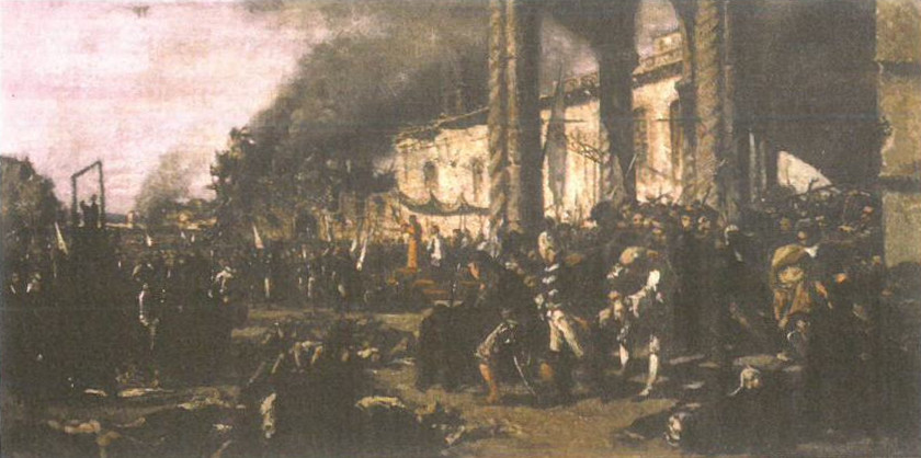 Michele Cammarano - Le stragi di Altamura - Museo San Martino - Naples